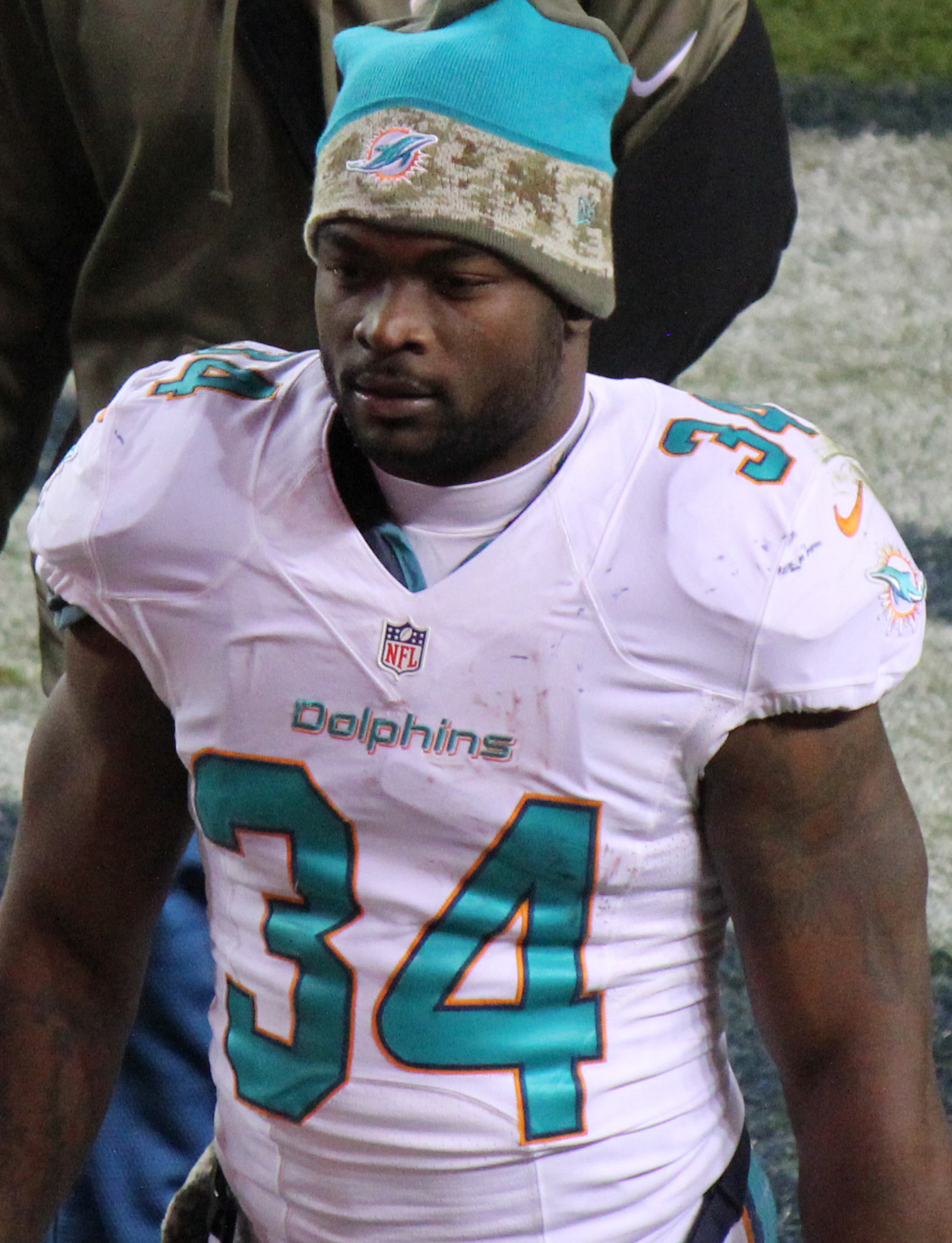 Damien Williams, a player on the National Football League.